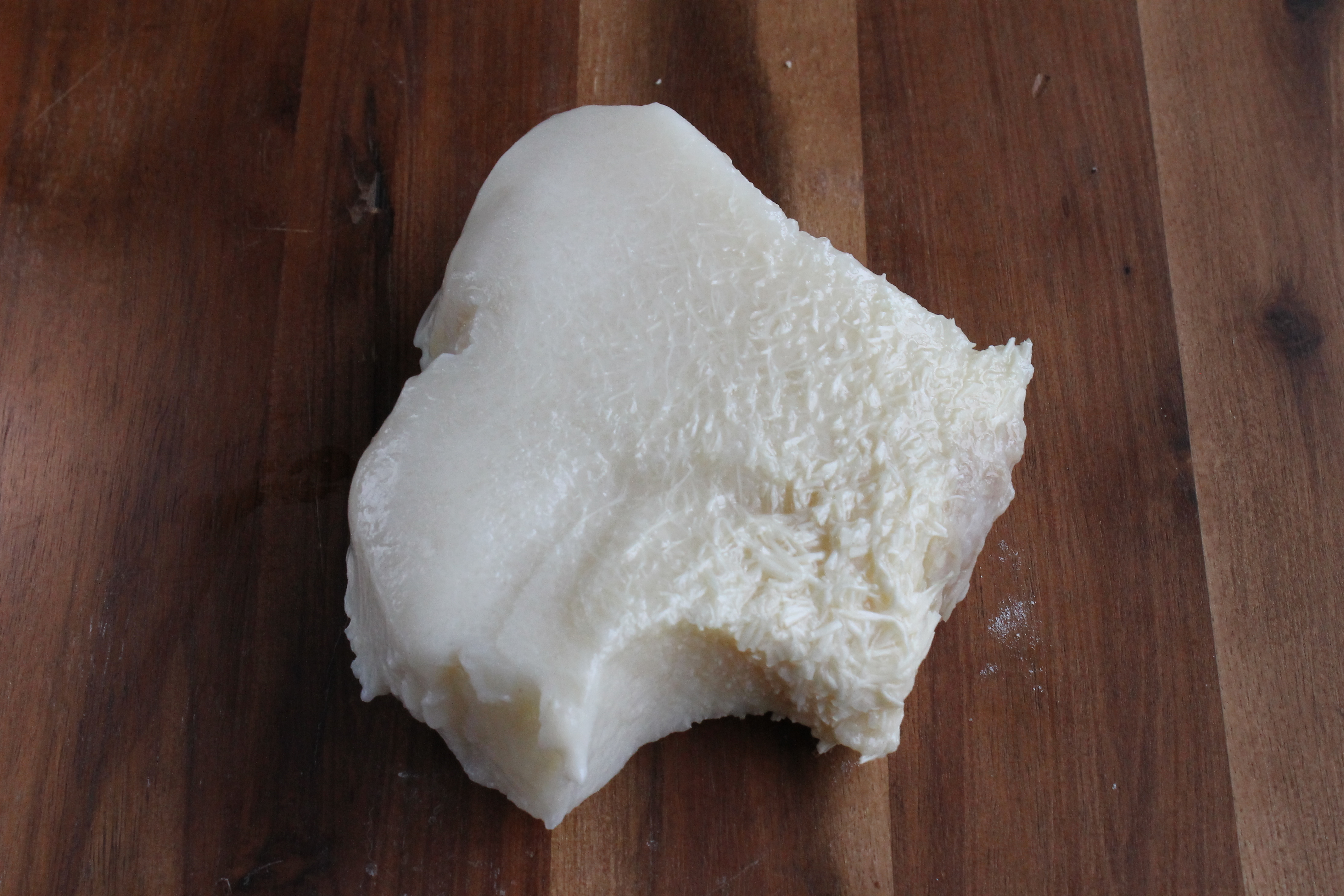 A slice of whale blubber, boiled and pickled in whey. A traditional Icelandic delicacy.